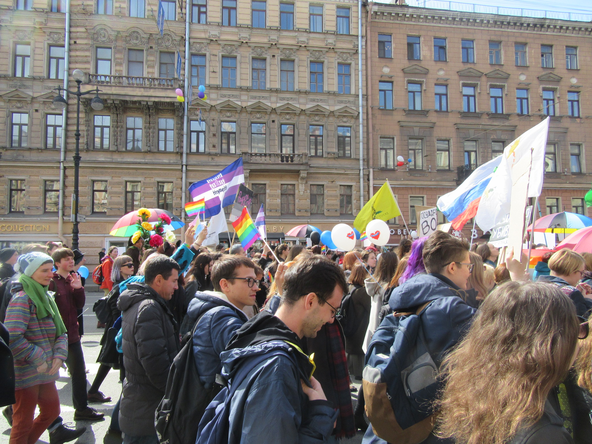 'Vesna' and LGBTQ activists at Nevskii prospect. May 1, 2017 rally in St. Petersburg, Russia